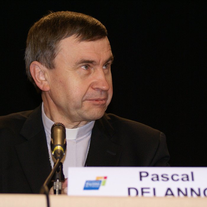 Pascal Delannoy, catholic bishop of Saint-Denis in France, speaking at the Semaines sociales de France at Villepinte, on the 20th of November, 2009.